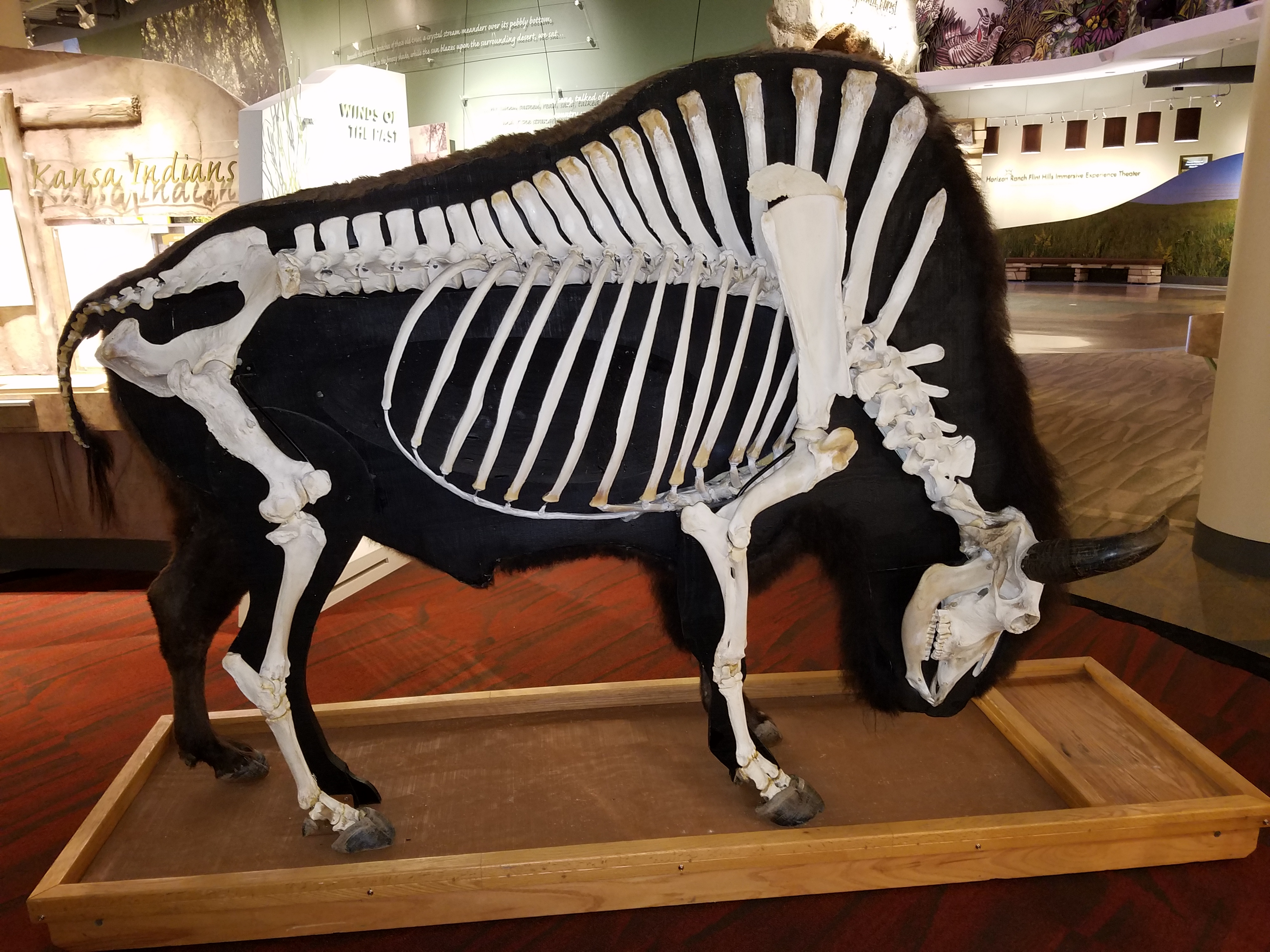 Image of "Ernie the Bison," a half-skeleton, half-taxidermy mount made from the real bones and tanned hide of an approximately 17 year old Bison bull. Created by Don "Doc" Woerner, DVM. On temporary display at the Flint Hills Discovery Center in Manhattan, KS.